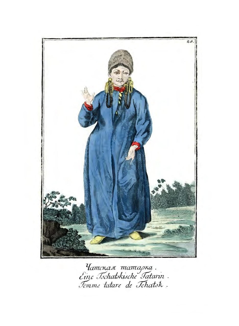 Siberian Tatar woman Drawing from Russian edition of Johann Gottlieb Georgi's «Beschreibung aller Nationen des Russischen Reichs, ihrer Lebensart, Religion, Gebräuche, Wohnungen, Kleidung und übrigen Merkwürdigkeiten»